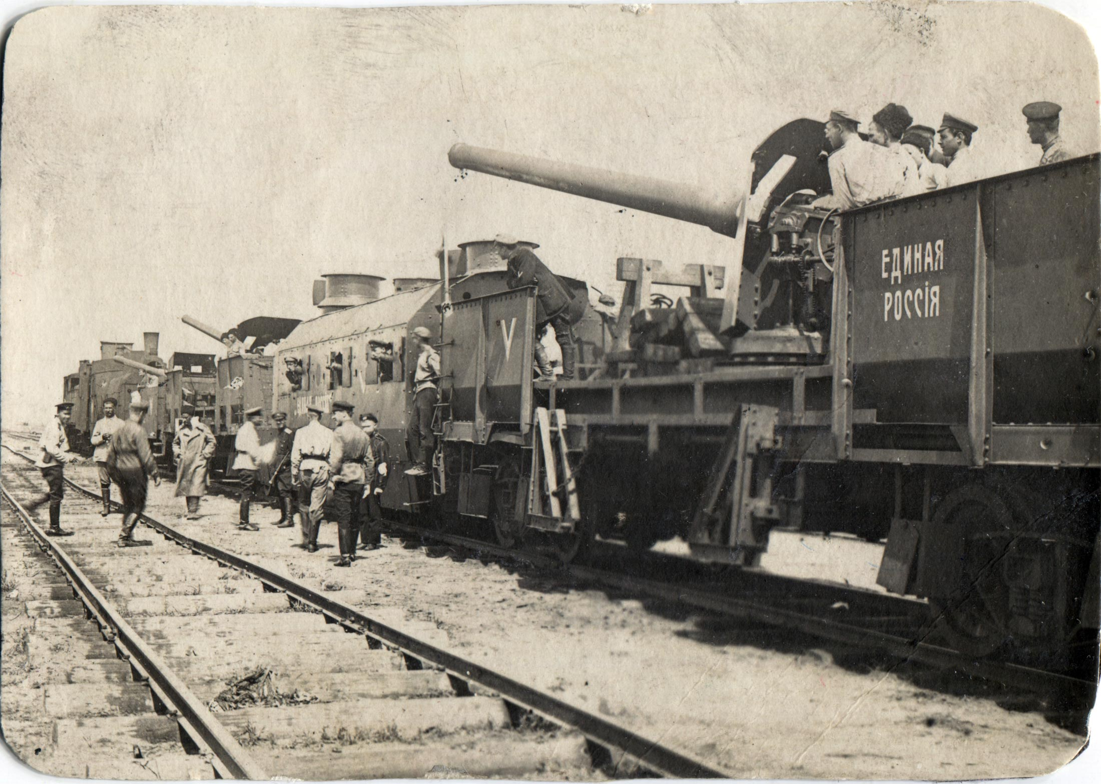 Единая Россия (бронепоезд)